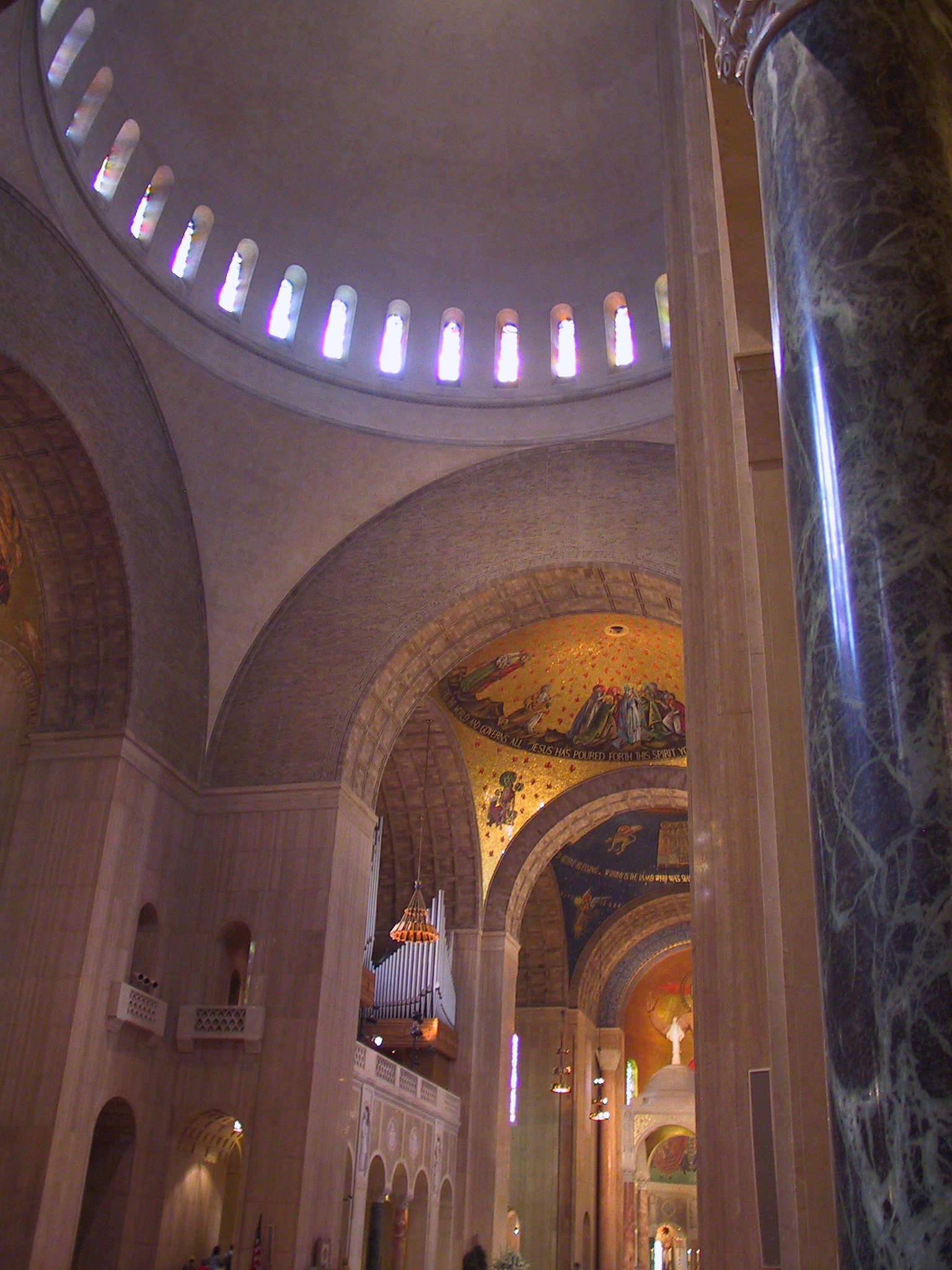 Interior of Basilica of the National Shrine of the Immaculate Conception, Washington DC, USA, taken summer 2004. Copyright © 2004 by Steven G. Johnson, donated to Wikipedia under GFDL.